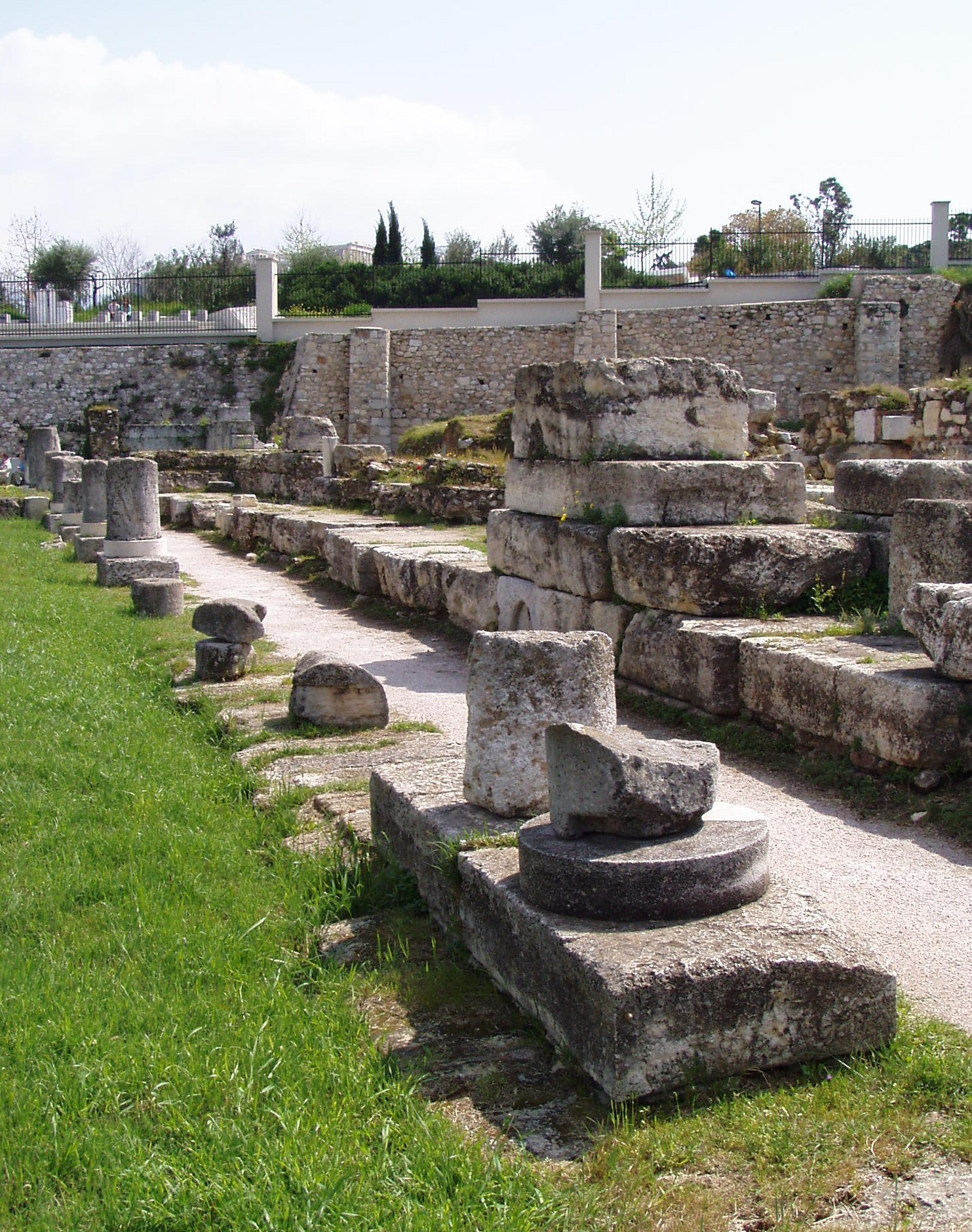 This is the Kerameikos in Athens.